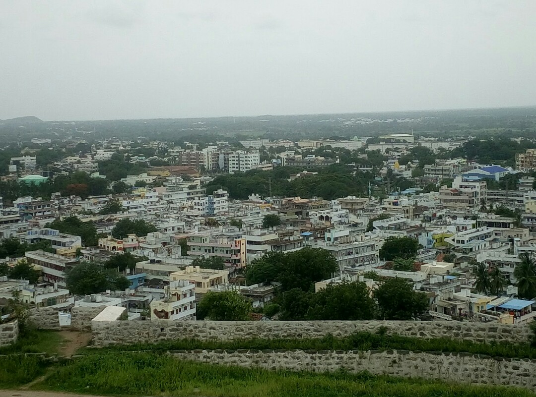 Suryapet City overview